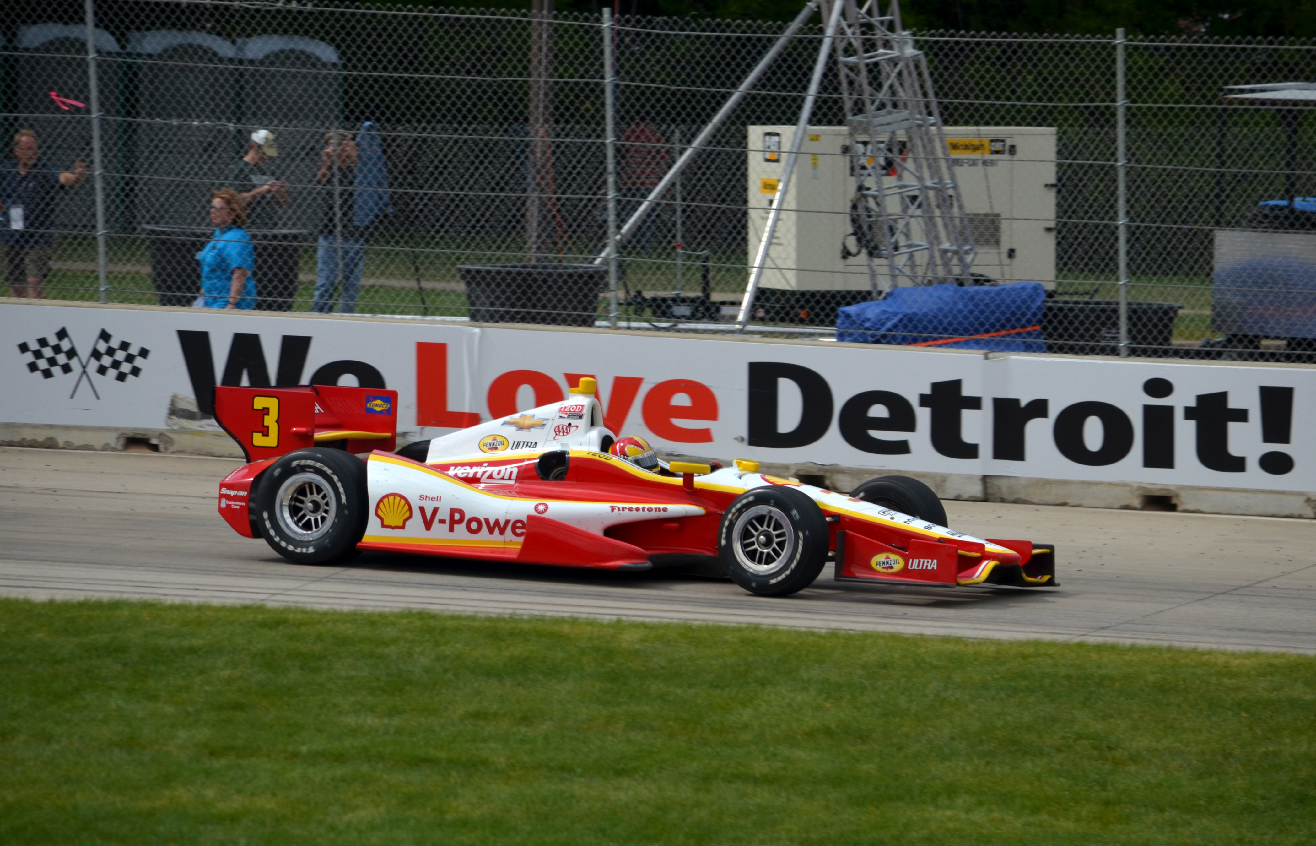 Helio Castroneves Team Penske - Chevrolet 2012 Detroit Belle Isle Grand Prix